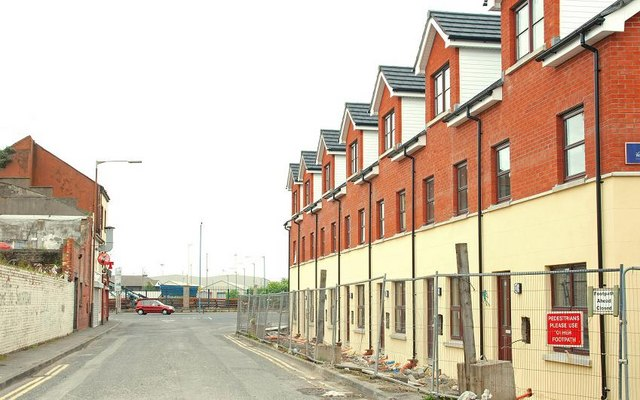 Short Street, Belfast. See 736418. The view towards Prince's Dock Street, with part of the Pilot Street apartments development 1308305 under construction on the right. Continue to 1625806.